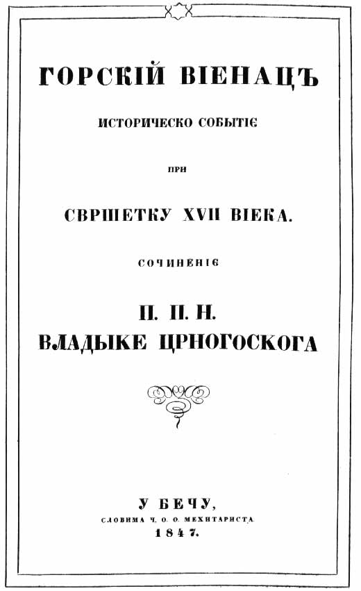 Cover page of The Mountain Wreath by Petar II Petrović-Njegoš, 1847.